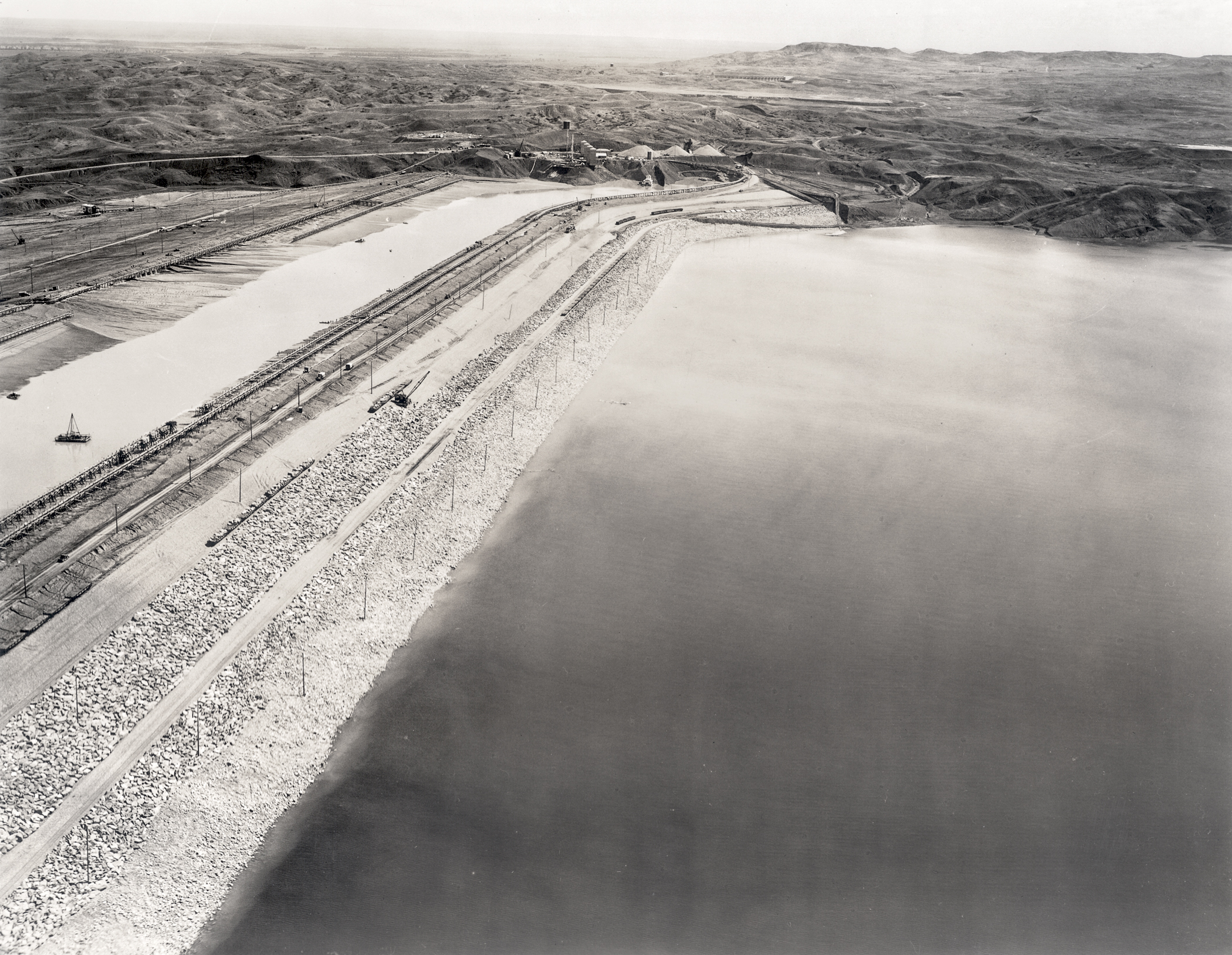 A view of the intact Fort Peck Dam during construction before the disastrous slide of September 22, 1938 — which occurred at the far eastern end, located the top center in this image. Northeastern Montana.